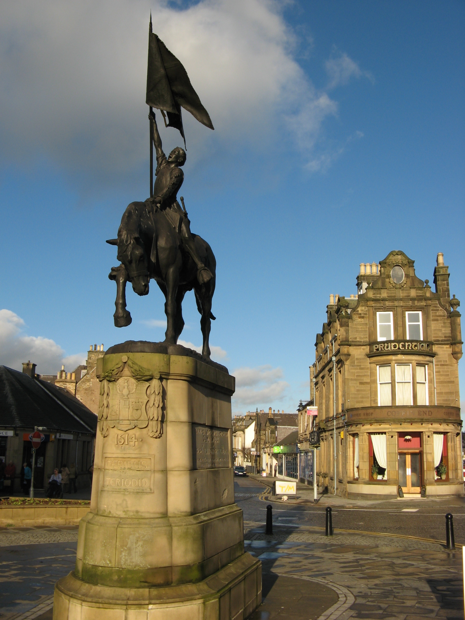 Monument in Hawick, Scotland, celebrating the defeat of an English raiding party in 1514.